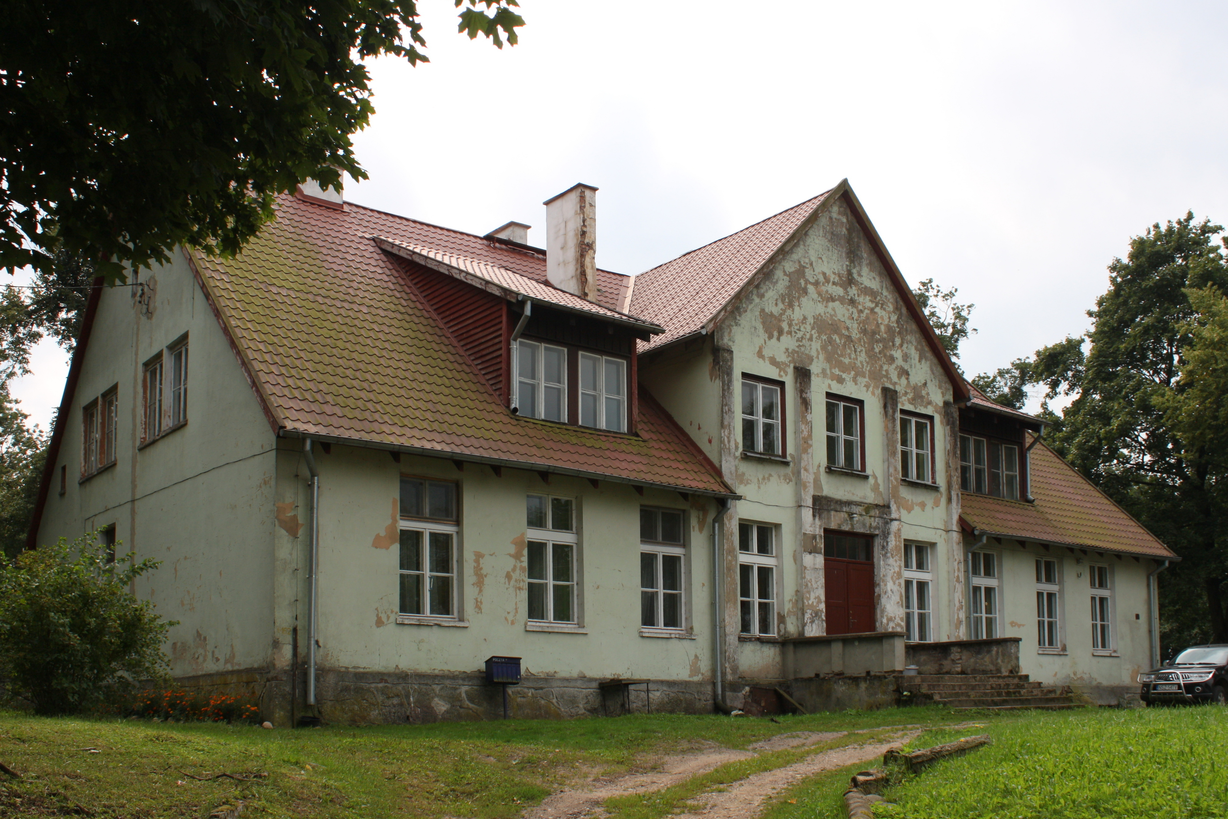 Manor in Rogale.